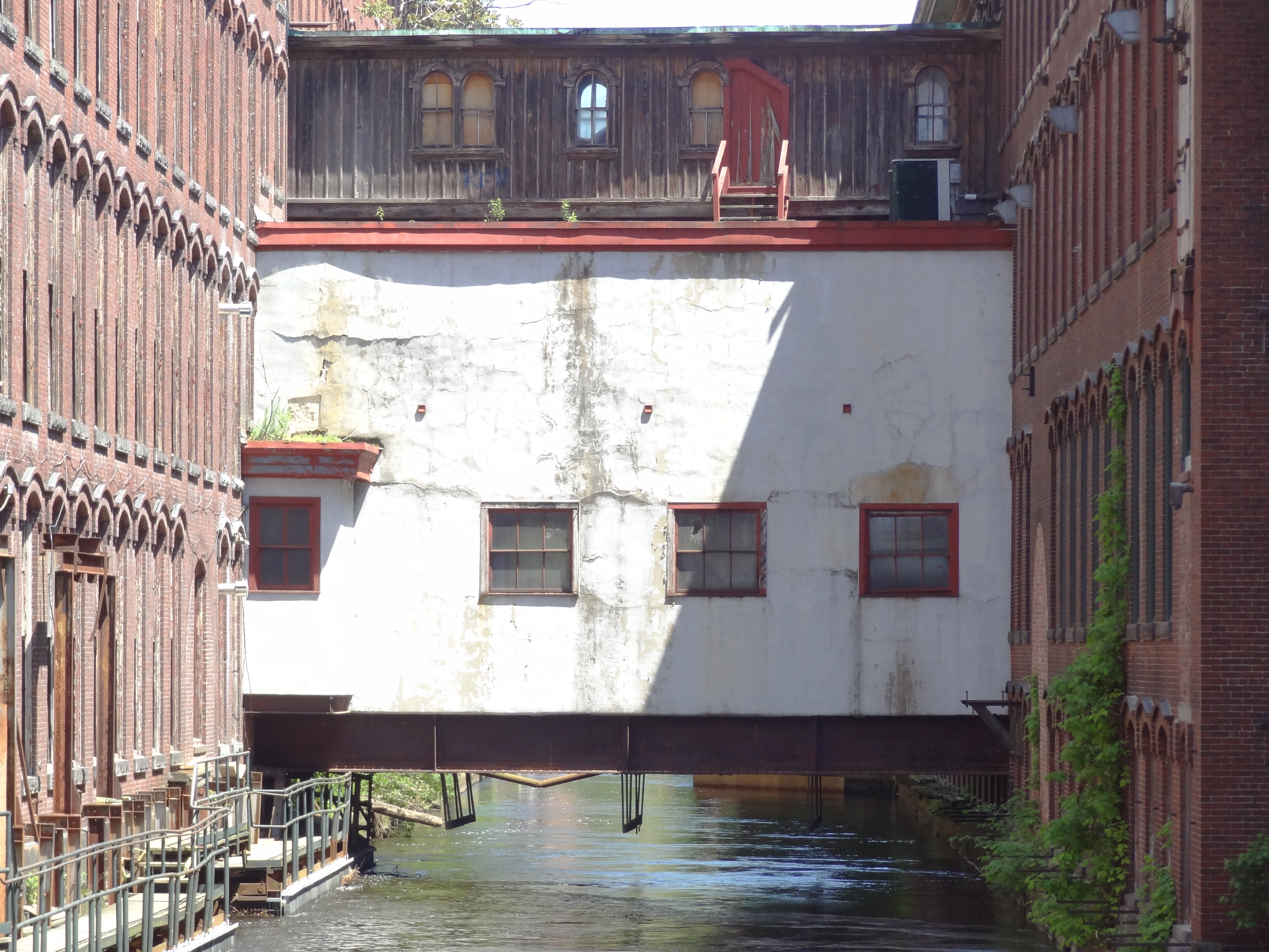 A connection overpassing Hamilton Canal between Hamilton Mill 6 and the Hamilton mill that abuts Jackson Street. Located near 165 Jackson Street, Lowell, Massachusetts.